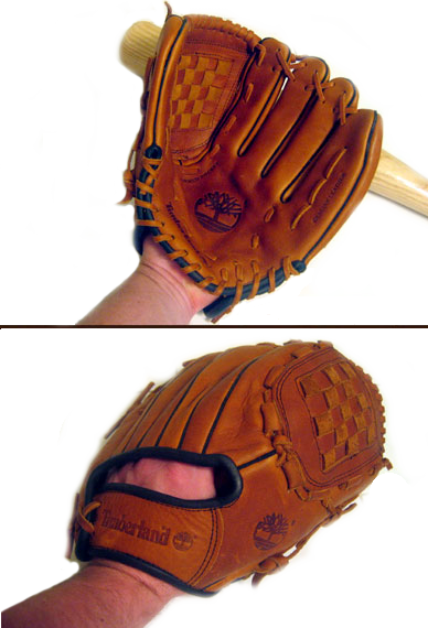 Baseball glove - top is with catching surface visible and baseball bat behind. Photo taken 12/30/2004 by Jeremy Kemp. Tile-background removed by Kingofears